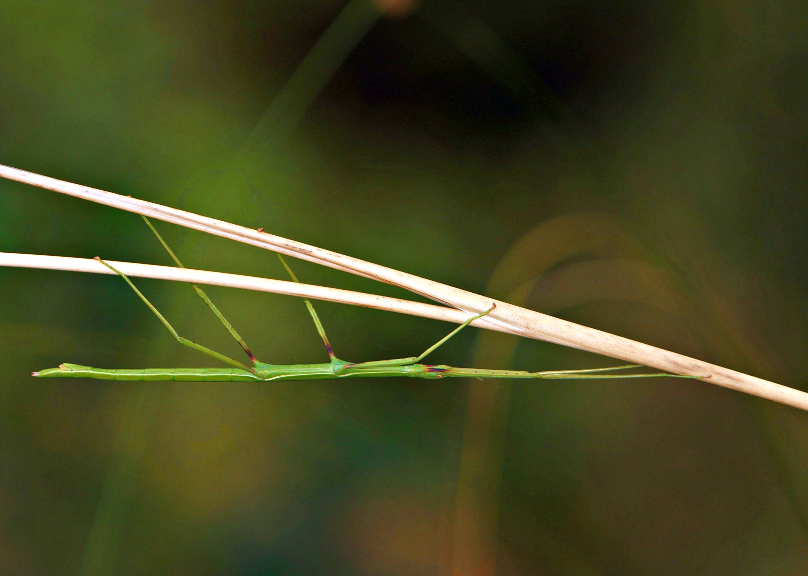 Bacillus rossius